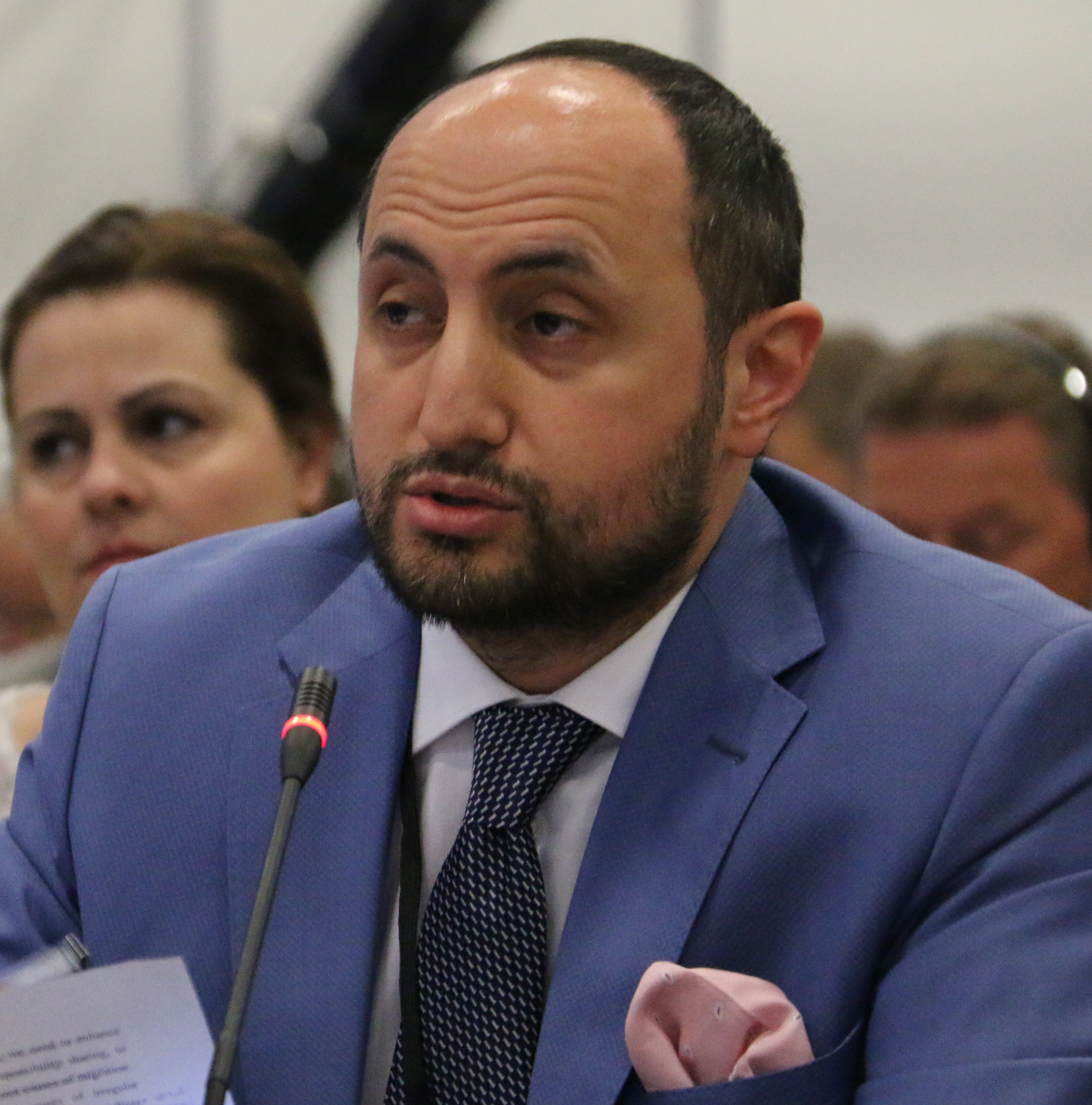 İsmail Emrah Karayel (Turkey) during the 2016 Annual Session of the OSCE Parliamentary Assembly.